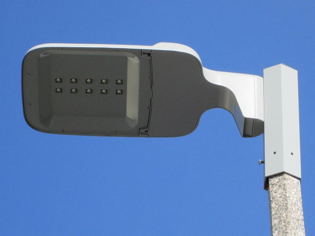 History of street lighting: Leotek Arieta AR18 in Grey